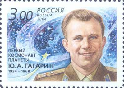 Stamps of Russia. Pilots (continuation of series). The 70th birth anniversary of first cosmonaut Y.A.Gagarin (1934-1968), 2004